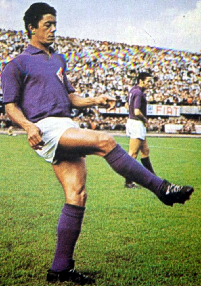 Brazilian footballer Amarildo Tavares da Silveira "Amarildo" in action with A.C. Fiorentina in the late 1960s.